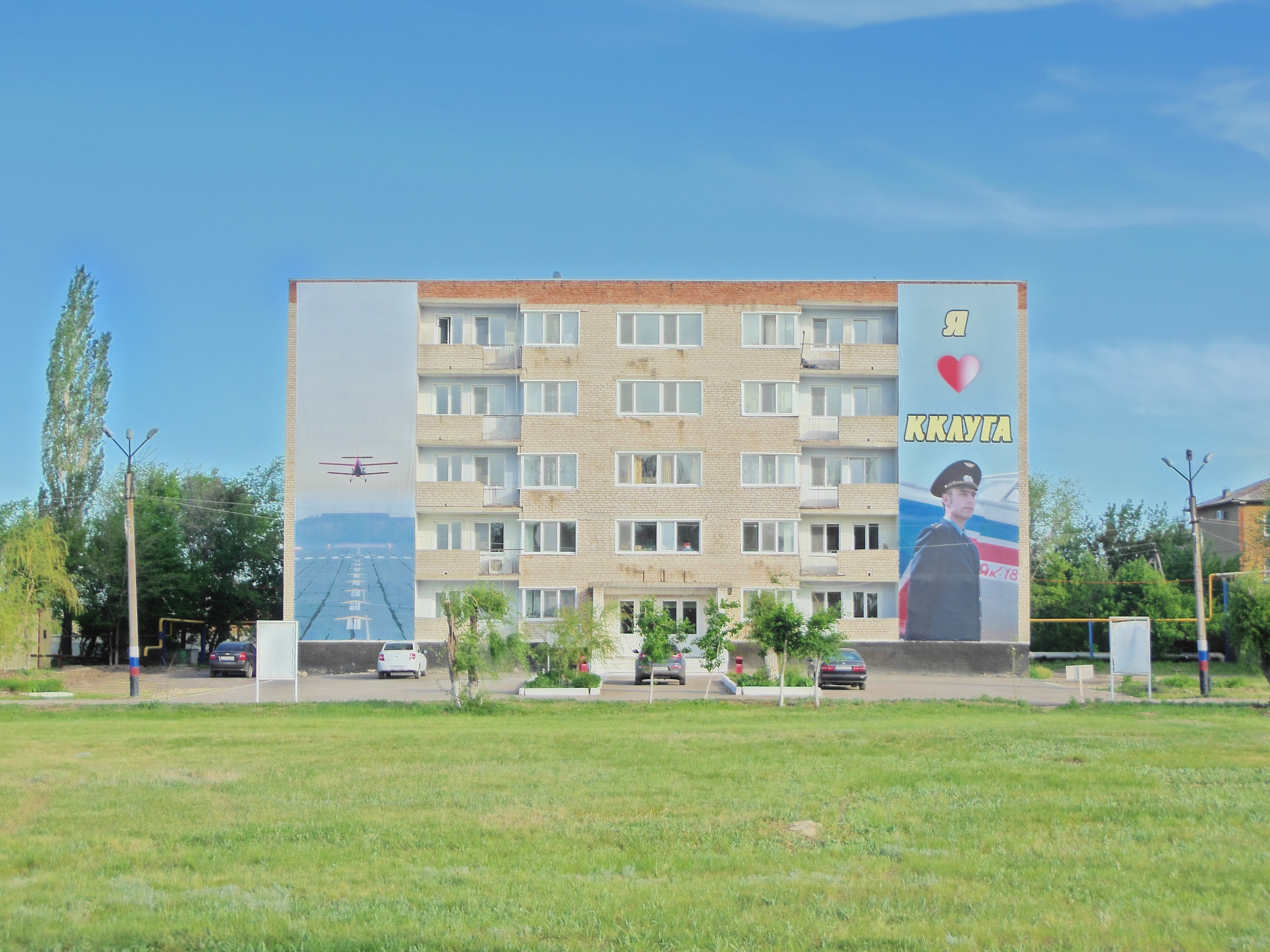 barack